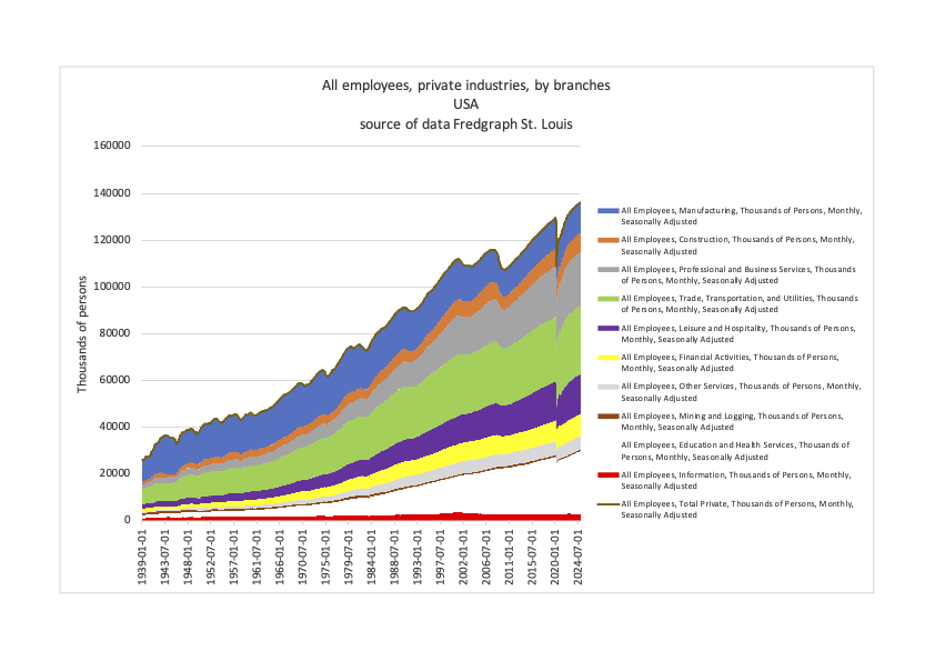 Employees, all private industries, by industries. data taken from source: US. Bureau of Labor Statistics, All Employees: Total Private Industries [USPRIV], retrieved from FRED, Federal Reserve Bank of St. Louis December 18, 2015.